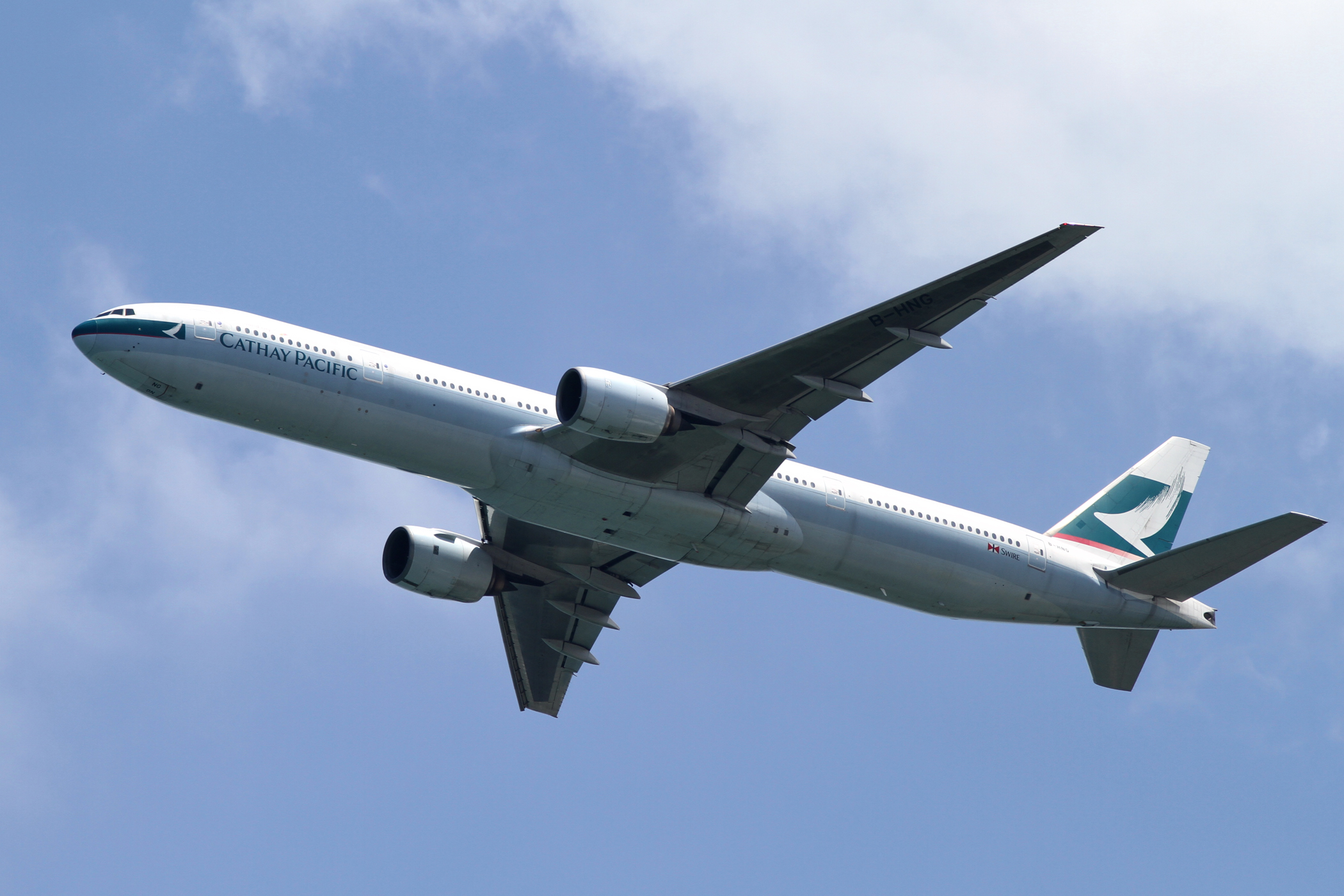 Climbing out from Runway 02C, Singapore Changi Airport, Boeing 777-312, c/n:28534, Singapore Airlines